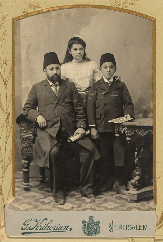 Fedi Effendi el-Alami [Faidi al-Alami], Na'amite (daugher), Mousa Bey (son). LC-DIG-ppmsca-18411-00008